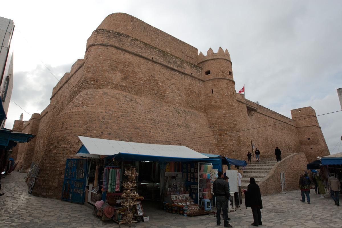 Hammamet, medina, kasba